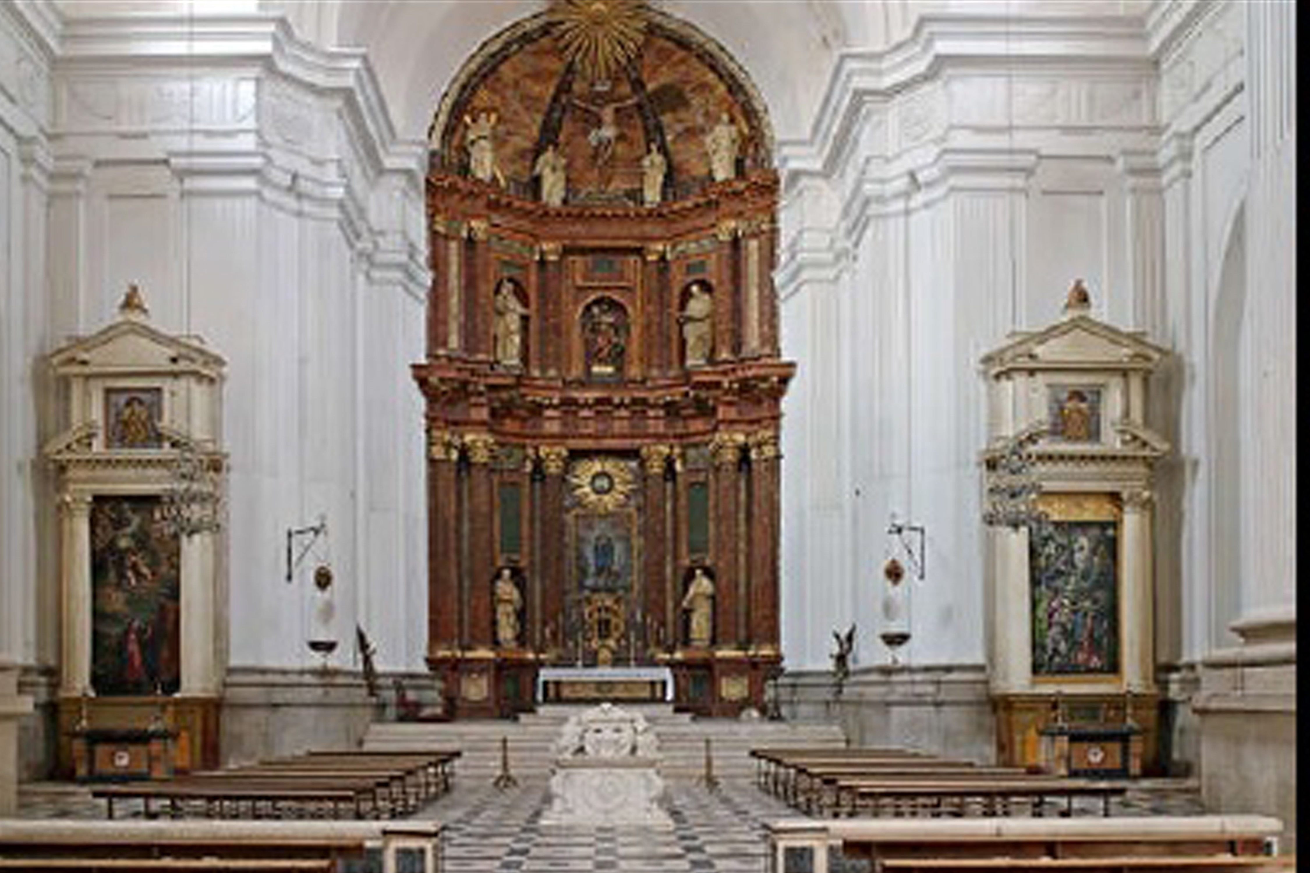 Obras comenzadas por El Greco y continuadas por su hijo Jorge Manuel.